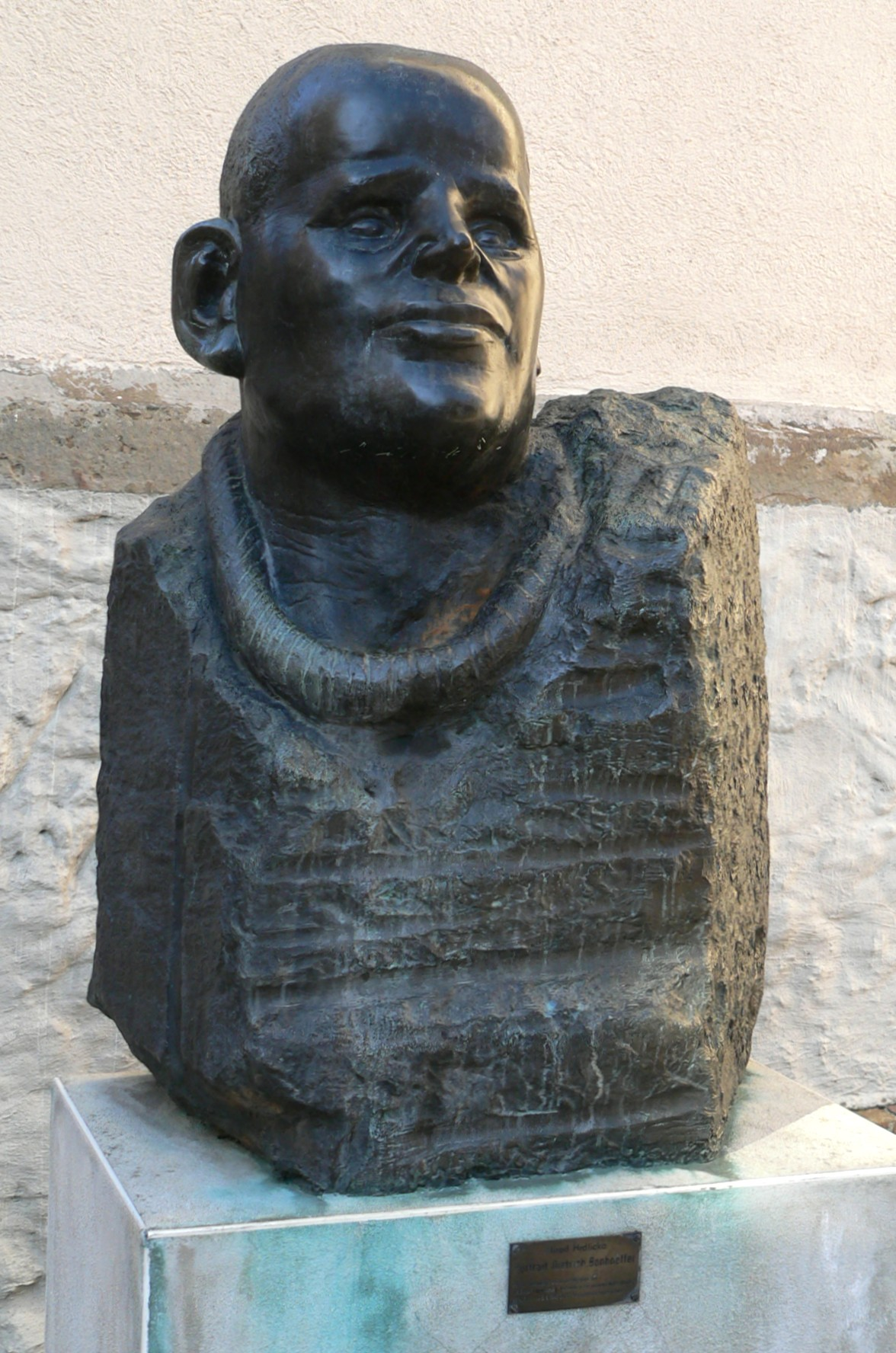 Portrait of bronze of Dietrich Bonhoeffer. Alfred Hrdlicka, 1987. Beside the church Stadtkirche, Germany